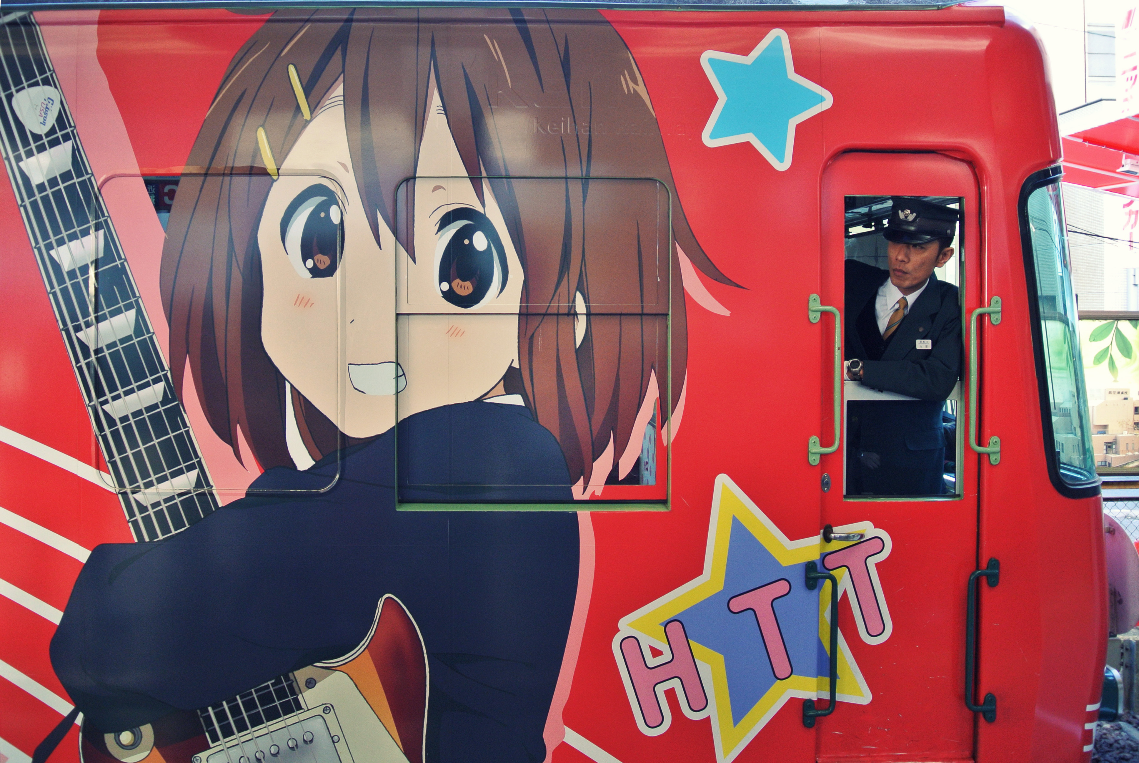 Dec 16, 2011 at 14:45, Shiga 浜大津駅